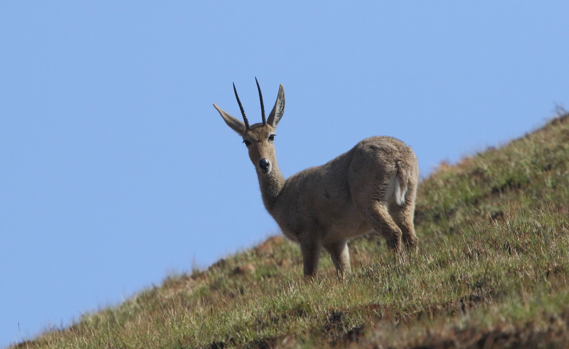 Male Grey Rhebok Pelea capreolus; Mikes Pass, KwaZulu-Natal Drakensberg, South Africa.